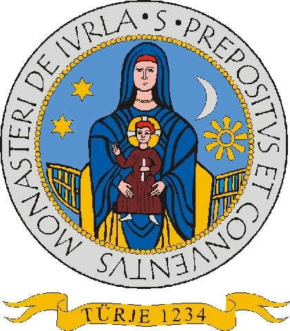 Coat of arms of Türje, Hungary